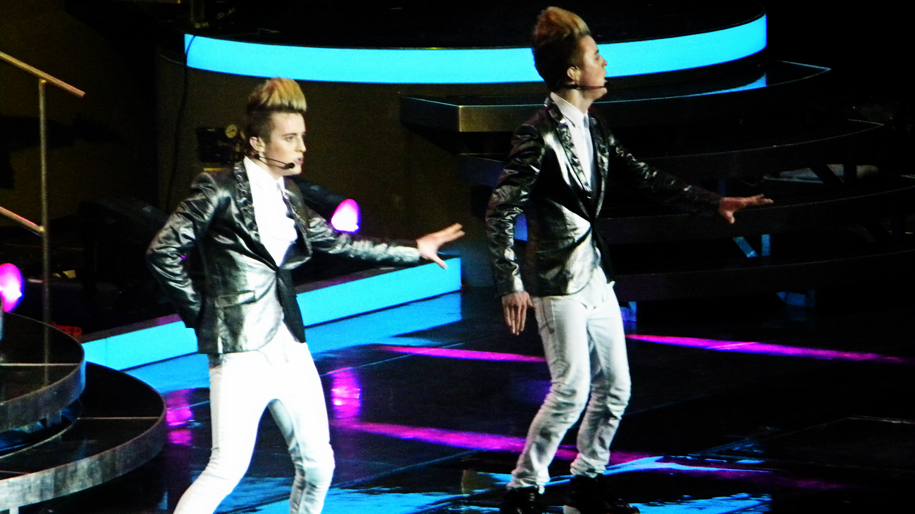 Jedward (aka John & Edward) performing live on the 20th March, 2010 as part of the UK X Factor 2010 tour